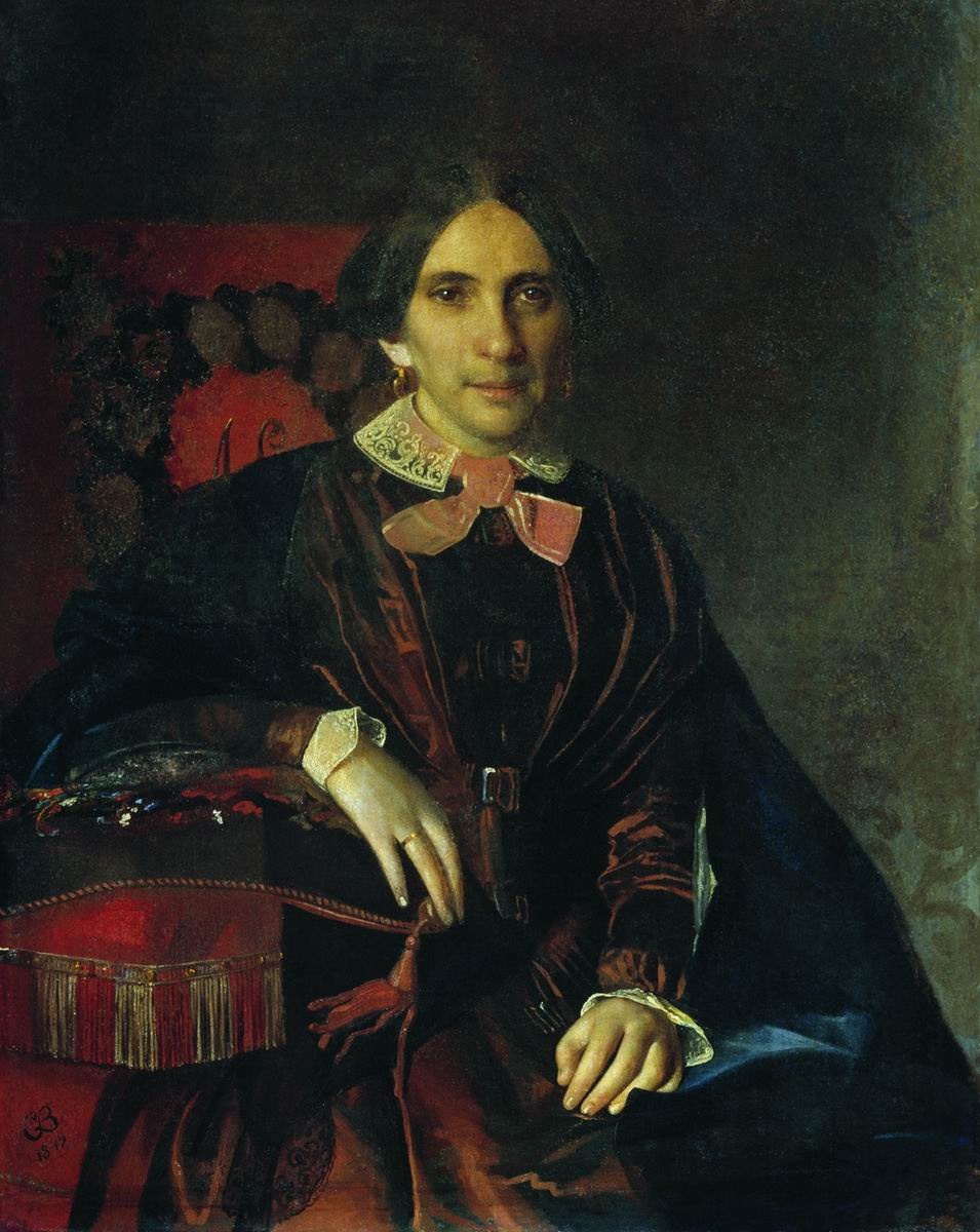 Portrait of A.K. Lomnovskaya